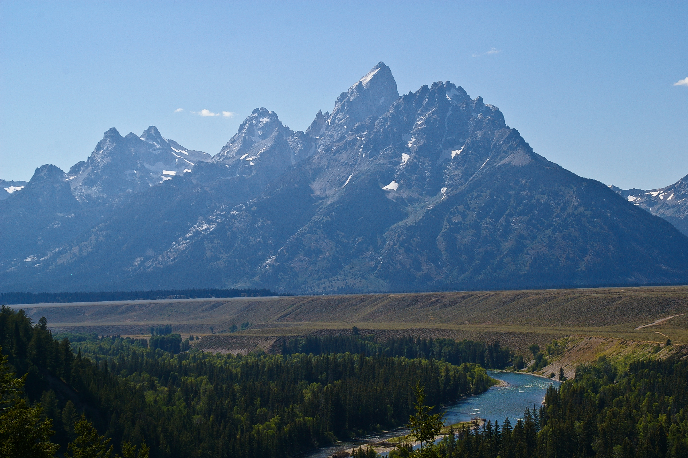 Grand Teton National Park, Wyoming